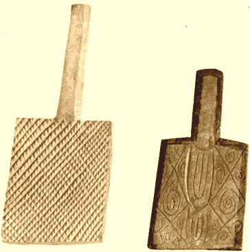 Paddles traditionally used by the Cherokee people to imprint designs on pottery.